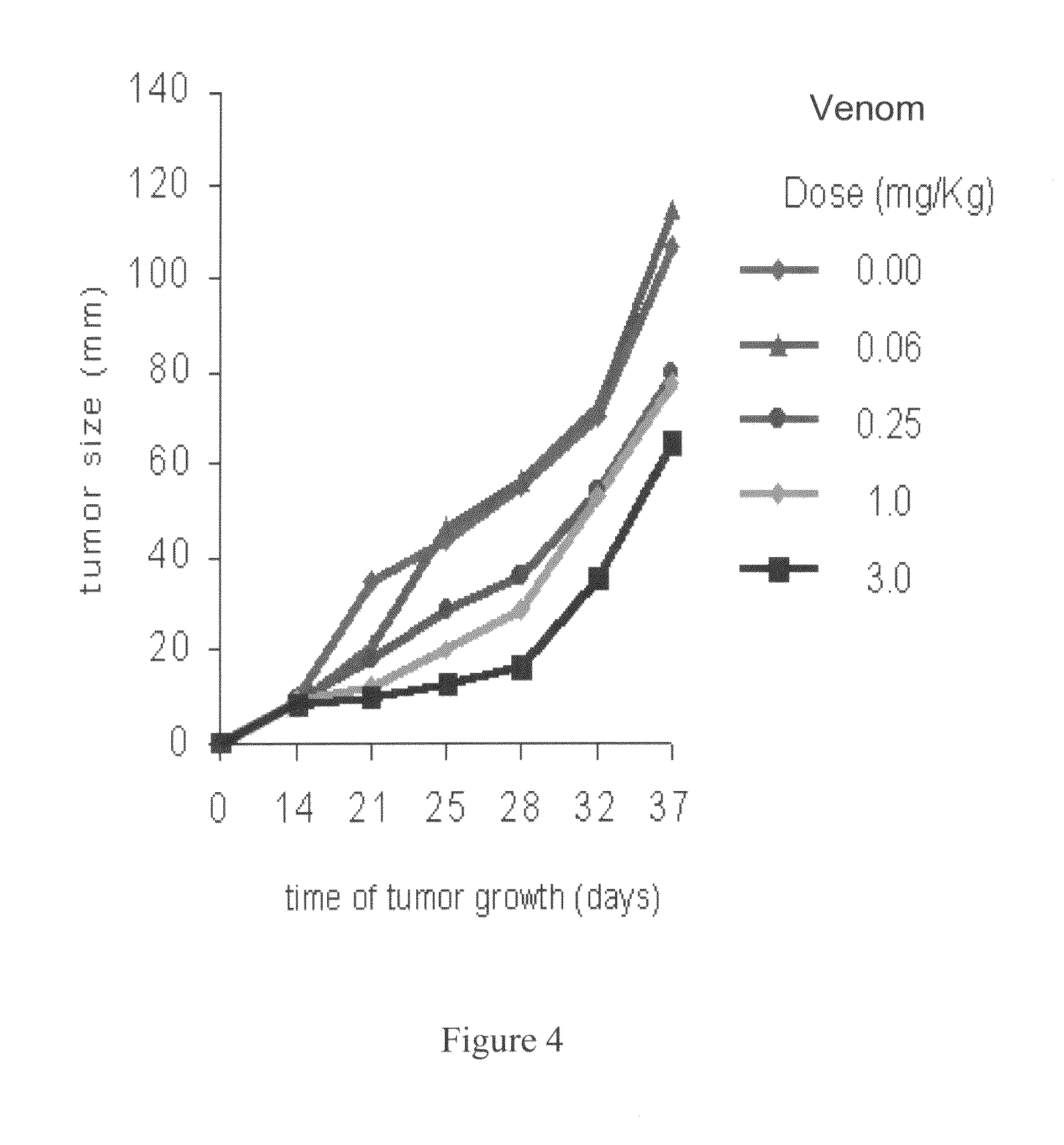 Is an illustration of the results of a study that shows the effectiveness of blue scorpion venom as a cancer treatment in the body.